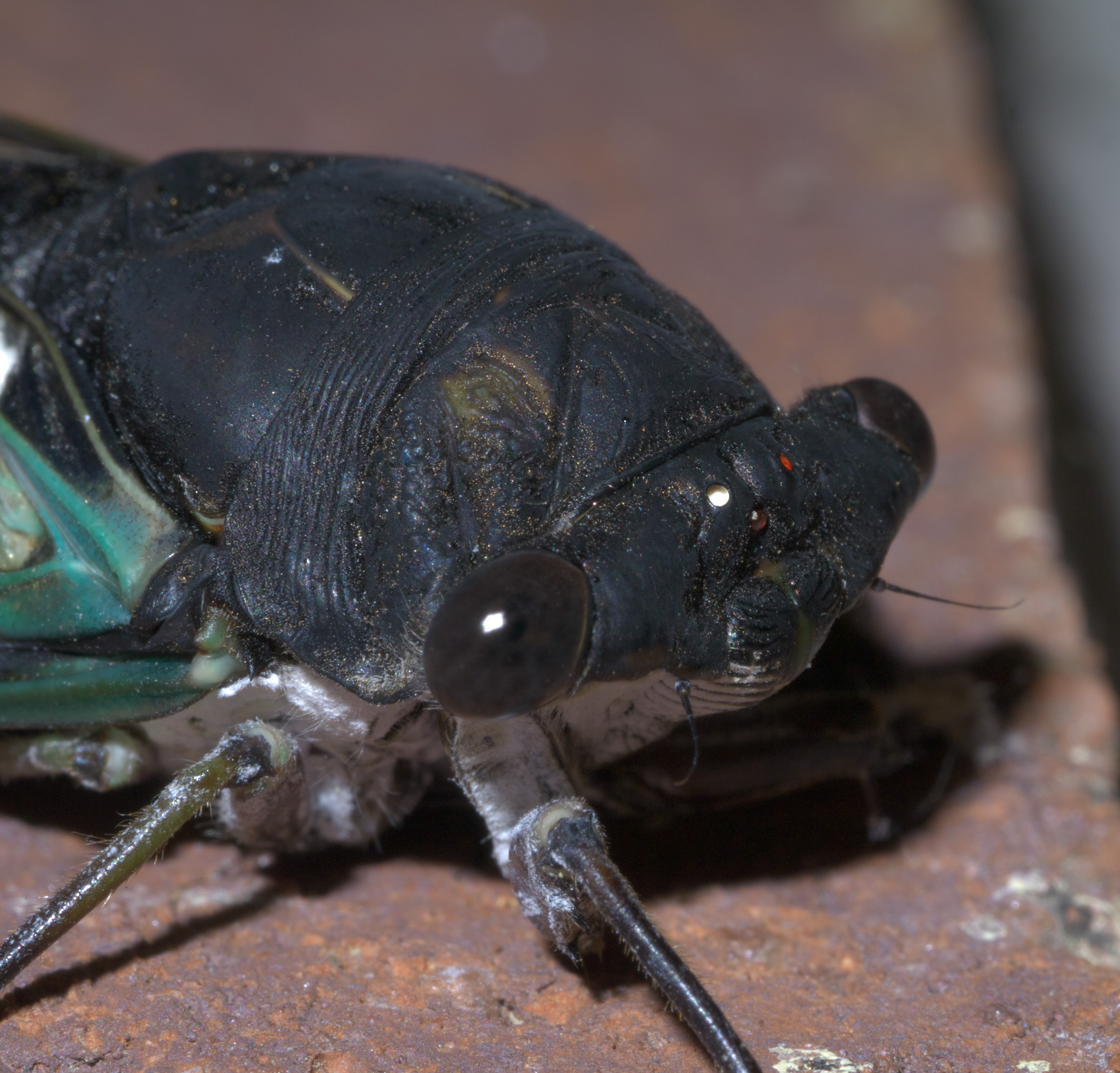 Neotibicen lyricen lyricen, lyric cicada, ID Confidence: 90